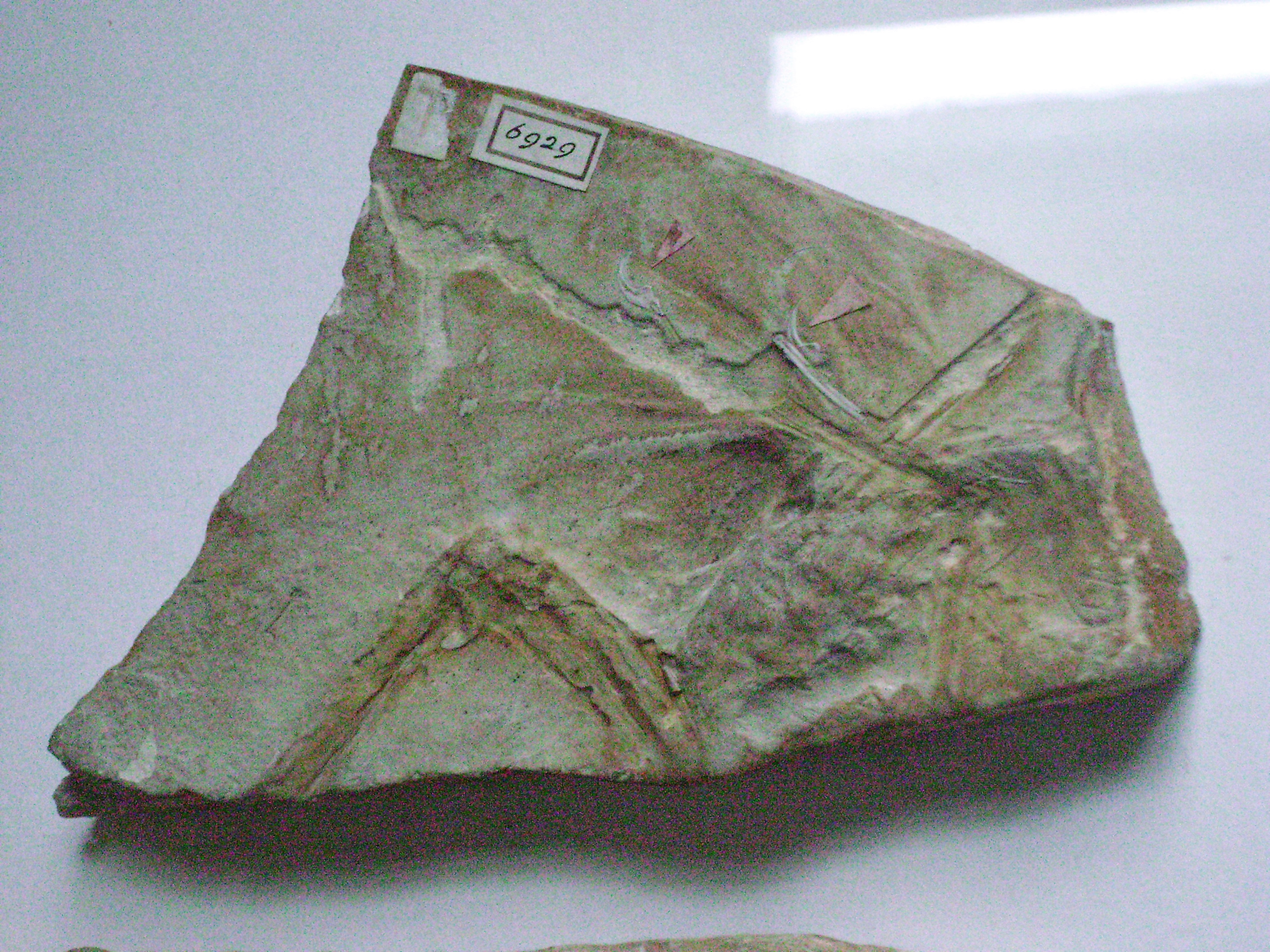 One of the slabs of the Haarlem specimen of Archaeopteryx in the Teylers Museum